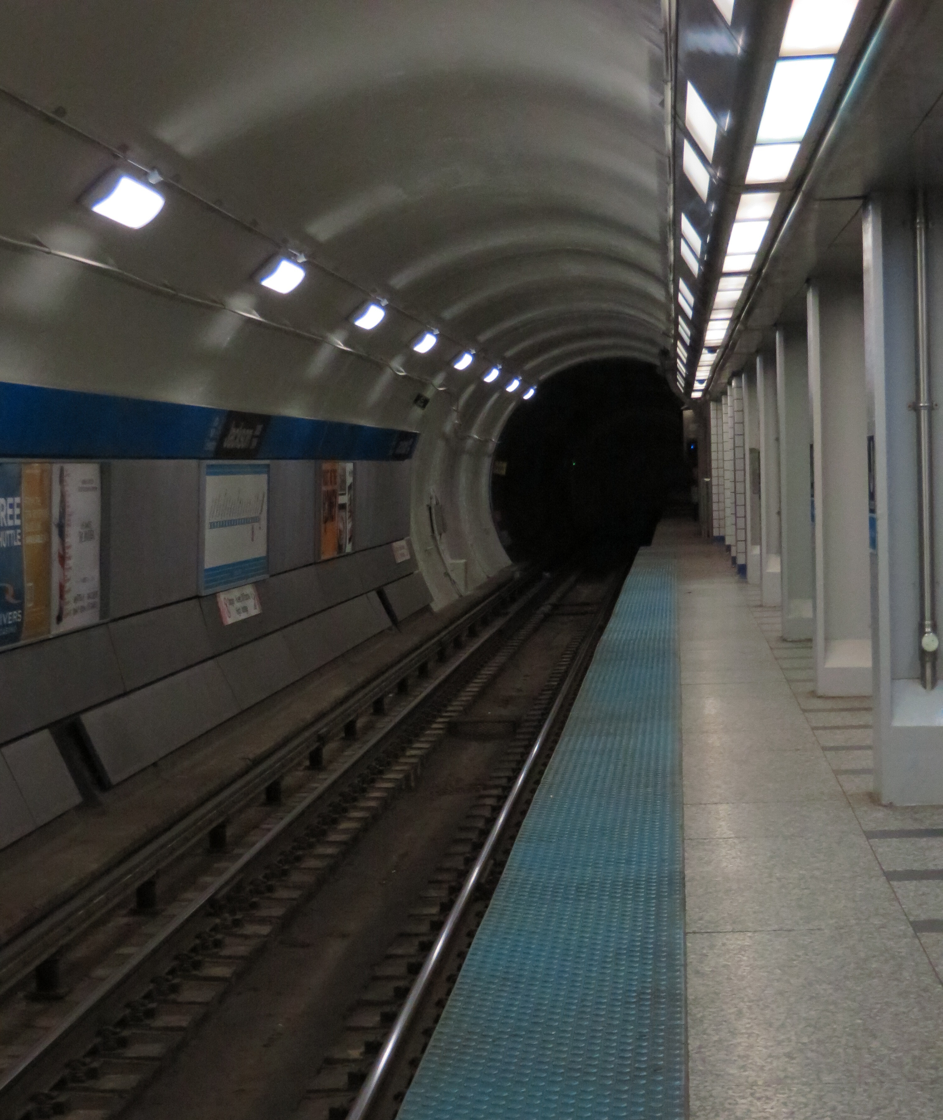 Subway Train Tunnel at the Jackson Station for the Blue Line in Chicago, IL